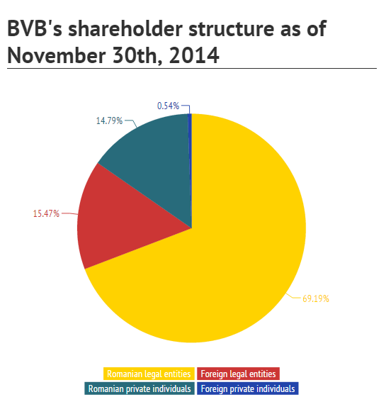 This pie chart presents BVB's shareholder structure